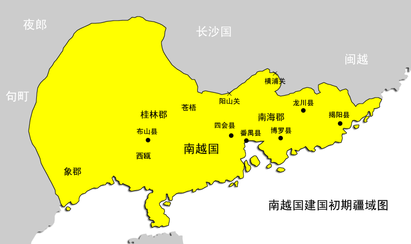 Map of Northeastern Commanderies of Nam Việt Kingdom